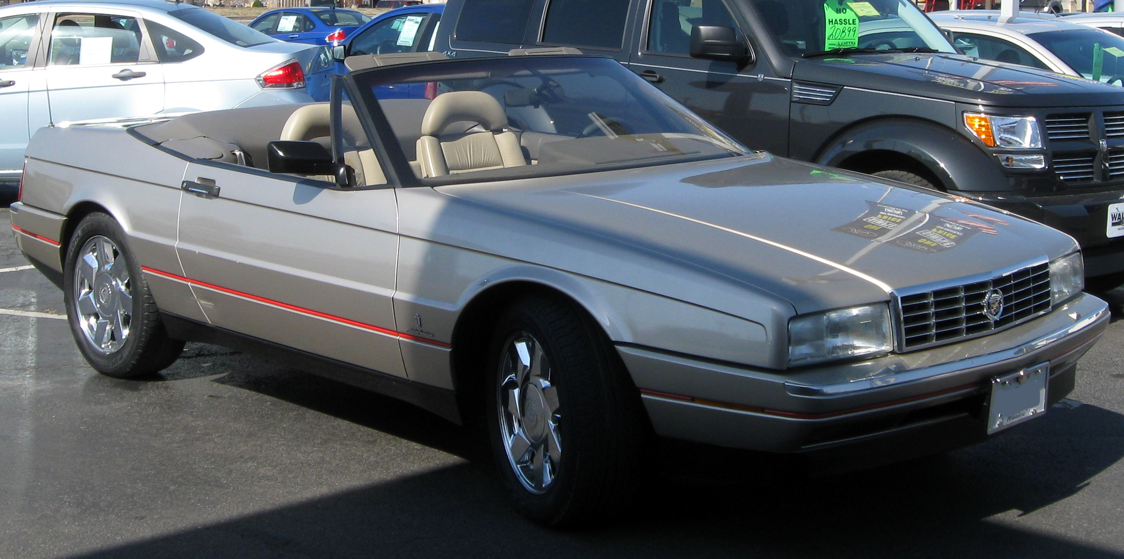 Cadillac Allante photographed in Waldorf, Maryland, USA.